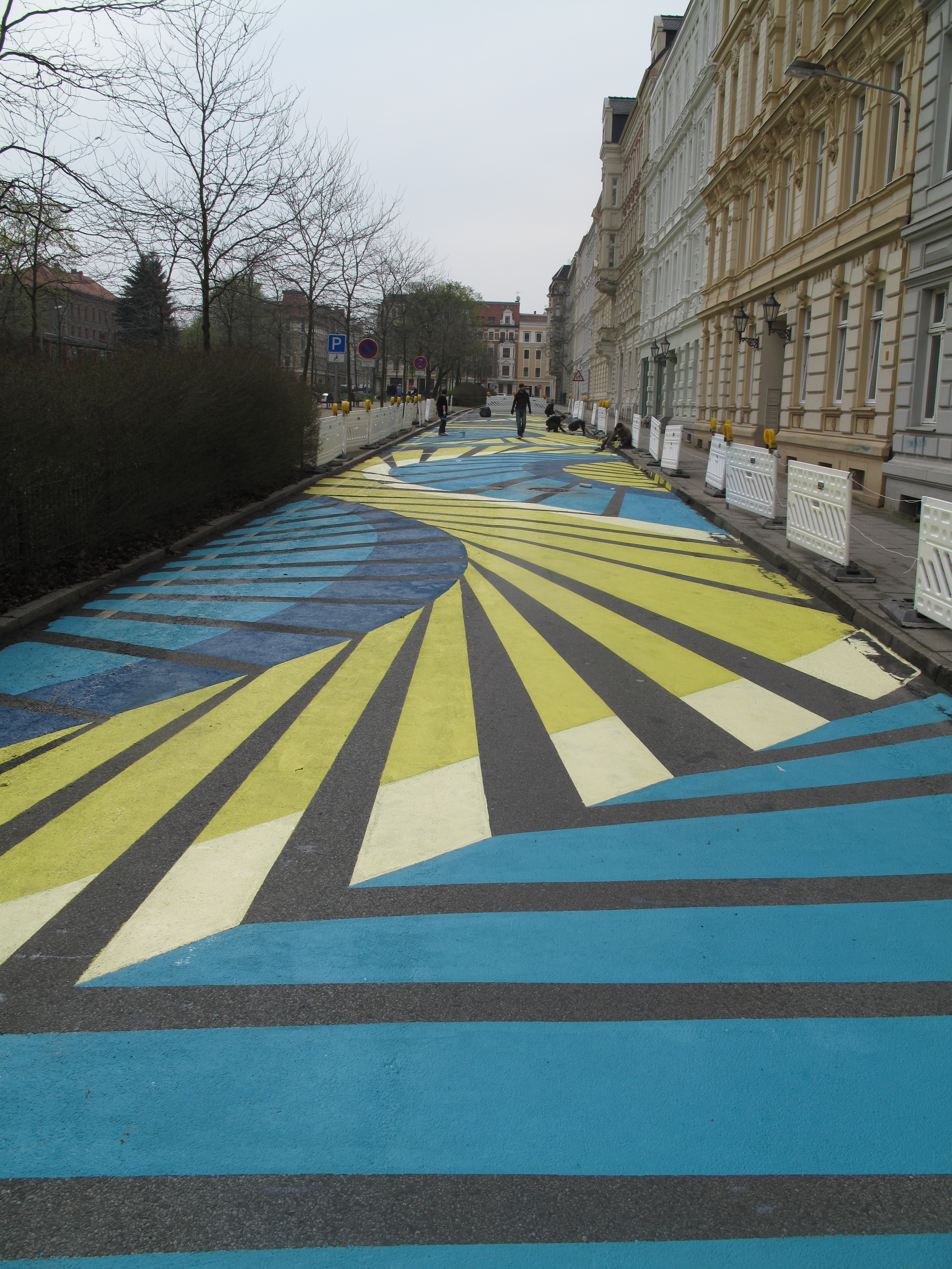 Colour work of art "Spindel" by Marianne Wesołowska-Eggimann (* 1980), Karolina Kiełpińska (* 1993) and Anna Rottau (* 1993); painted on the Street at Lutherplatz in Görlitz as part of the art exposition Görlitzer ART